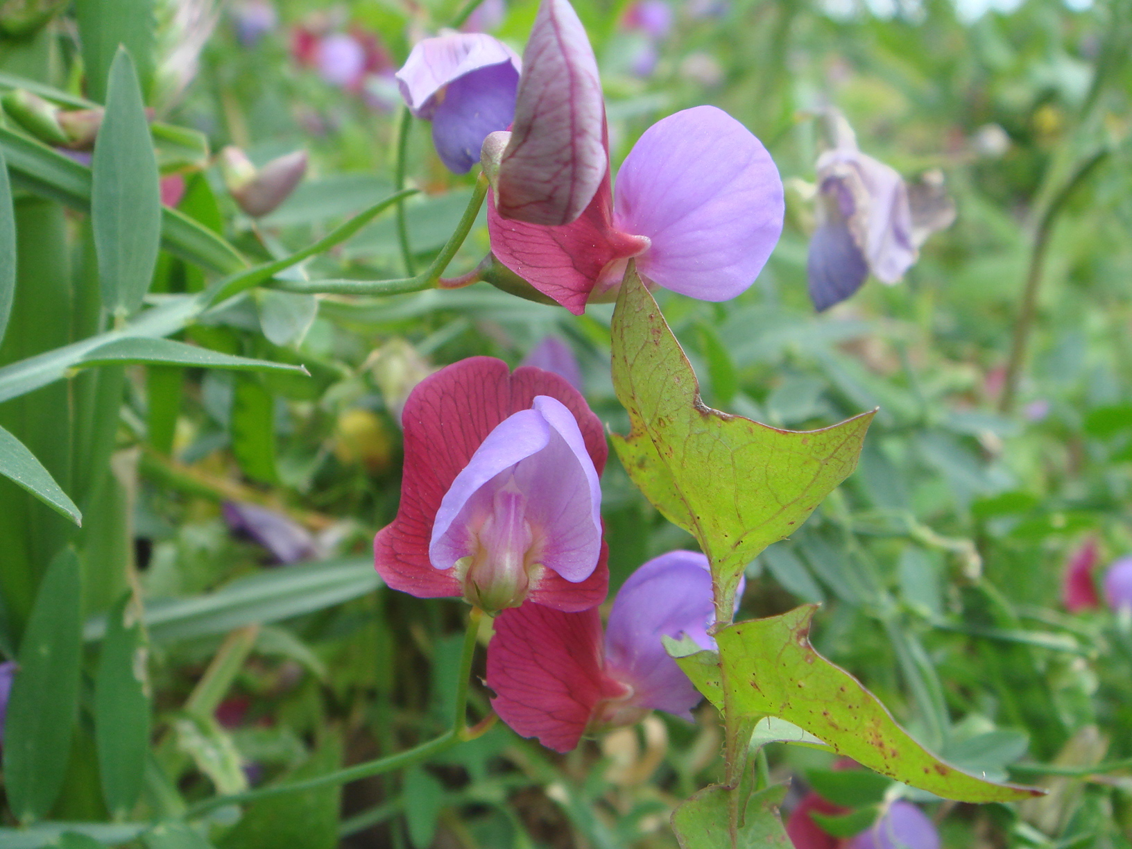 Lathyrus clymenum, Ceuta (Spain)